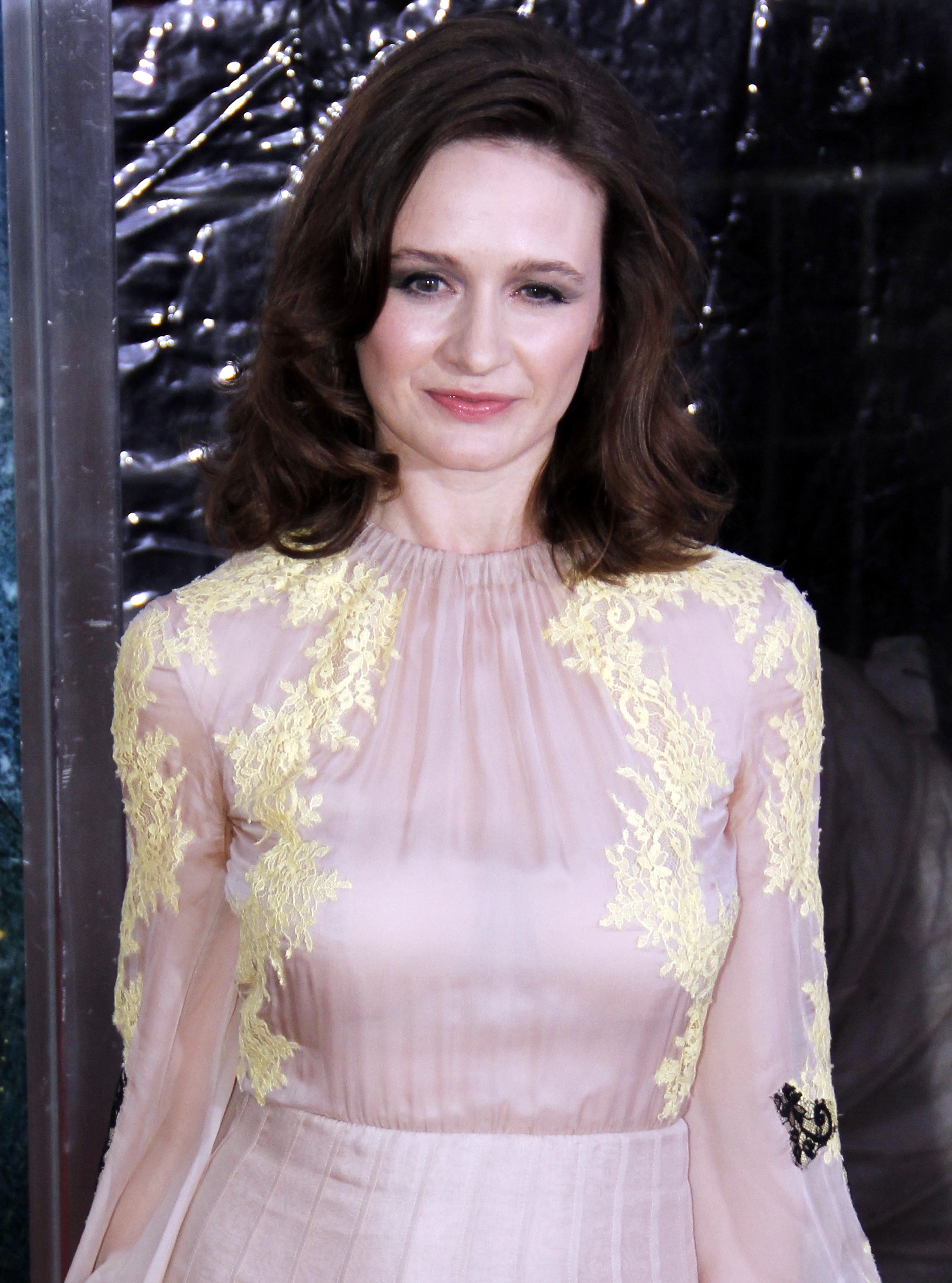 Emily Mortimer at the Hugo Premiere, New York City 2011.